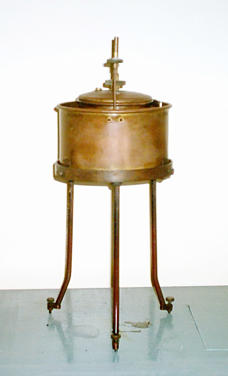 Engler viscometer